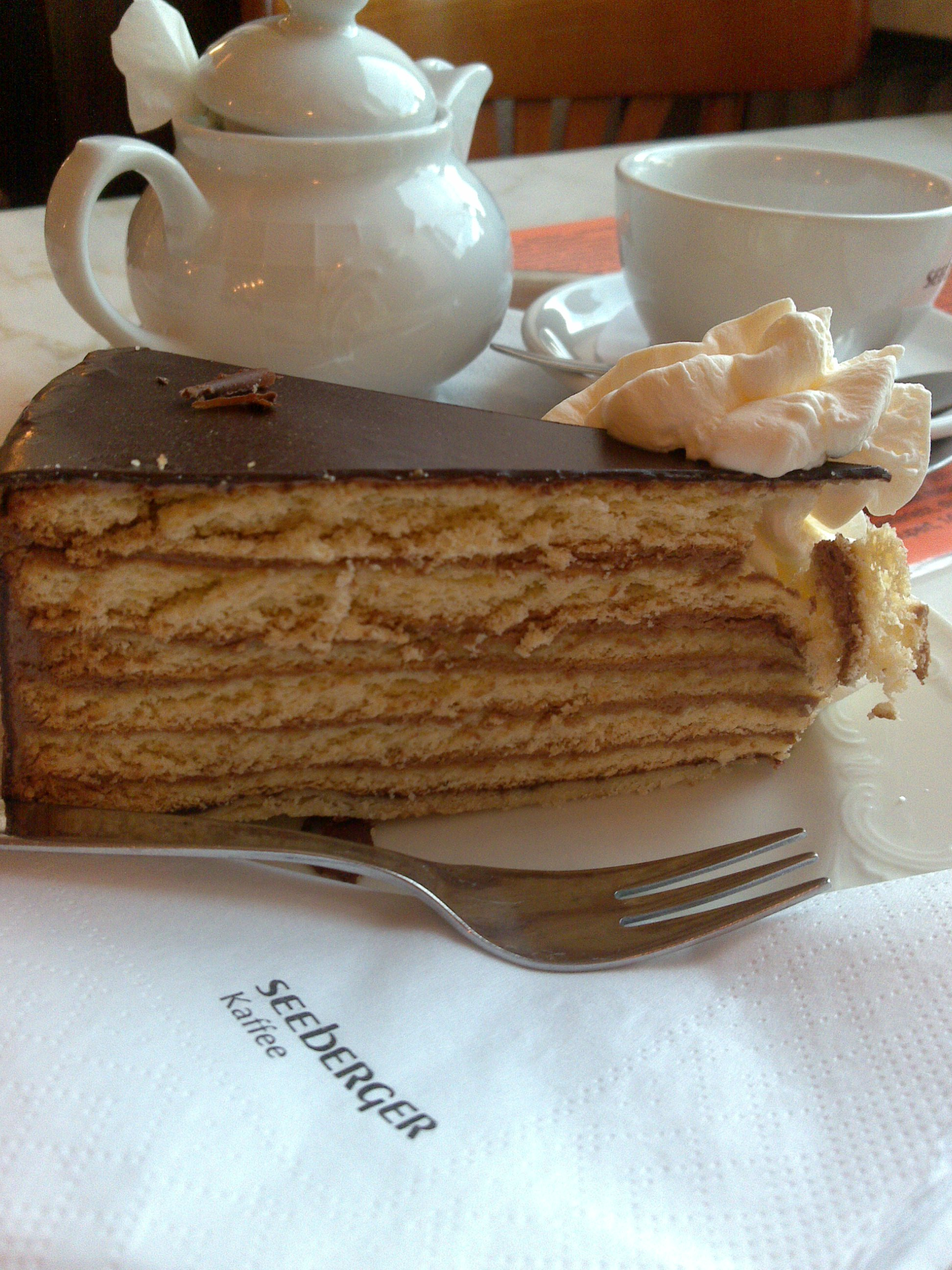 Prinzregententorte is a cake found mainly in Bavaria, which consists of at least six thin layers of sponge cake interlaid with chocolate buttercream. The exterior is covered in a dark chocolate glaze.